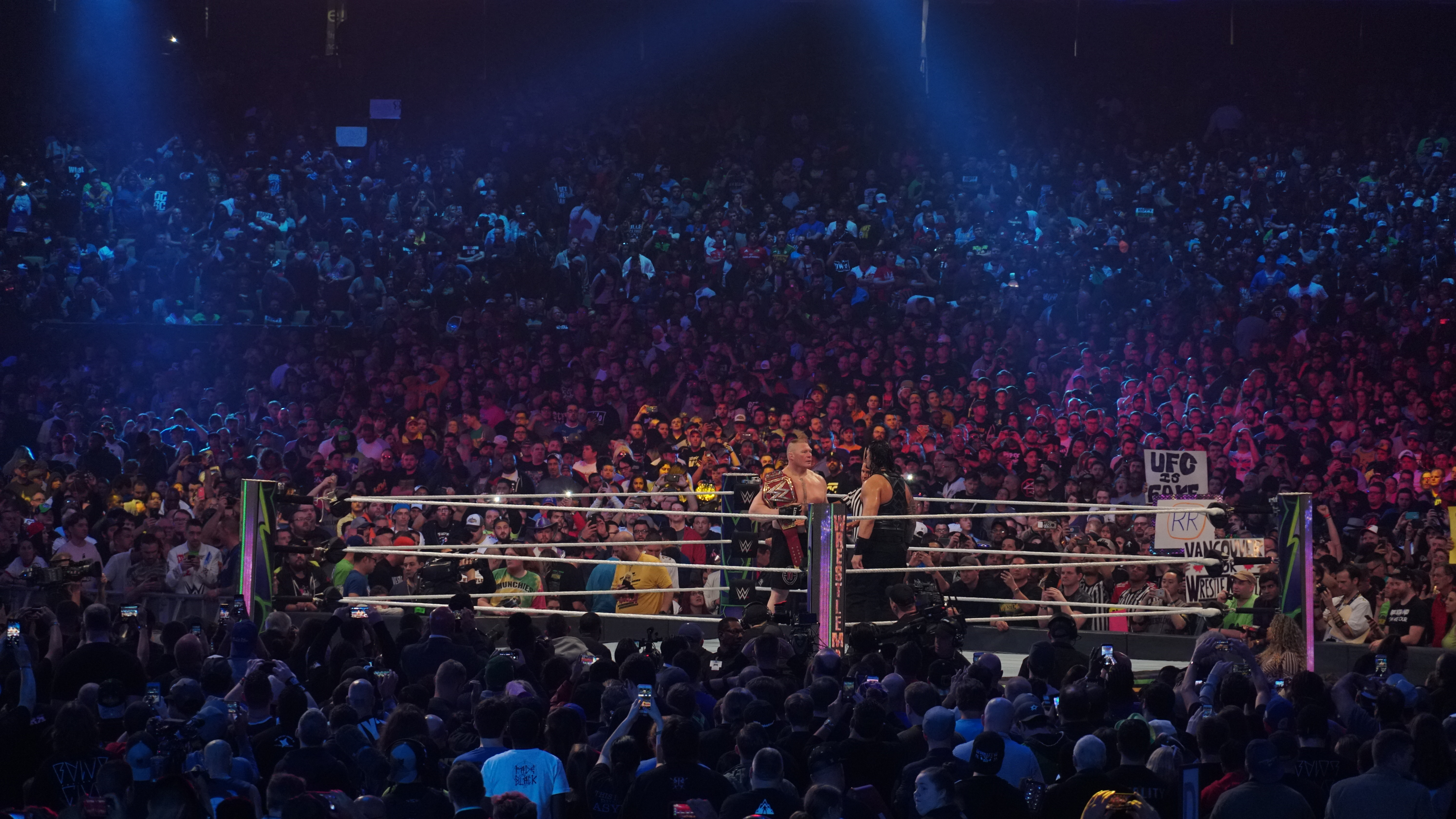 WWE Universal Champion Brock Lesnar vs Roman Reigns at WrestleMania 34.